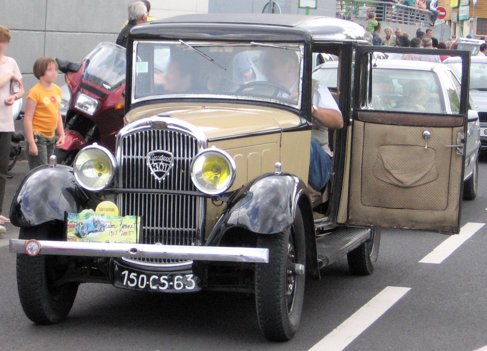 Peugeot 301 - Camera : Canon Powershot A510, 3 Megapixels picture (cropped).